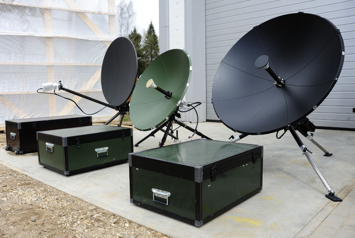 "SNARK" family of quick deploy VSATs